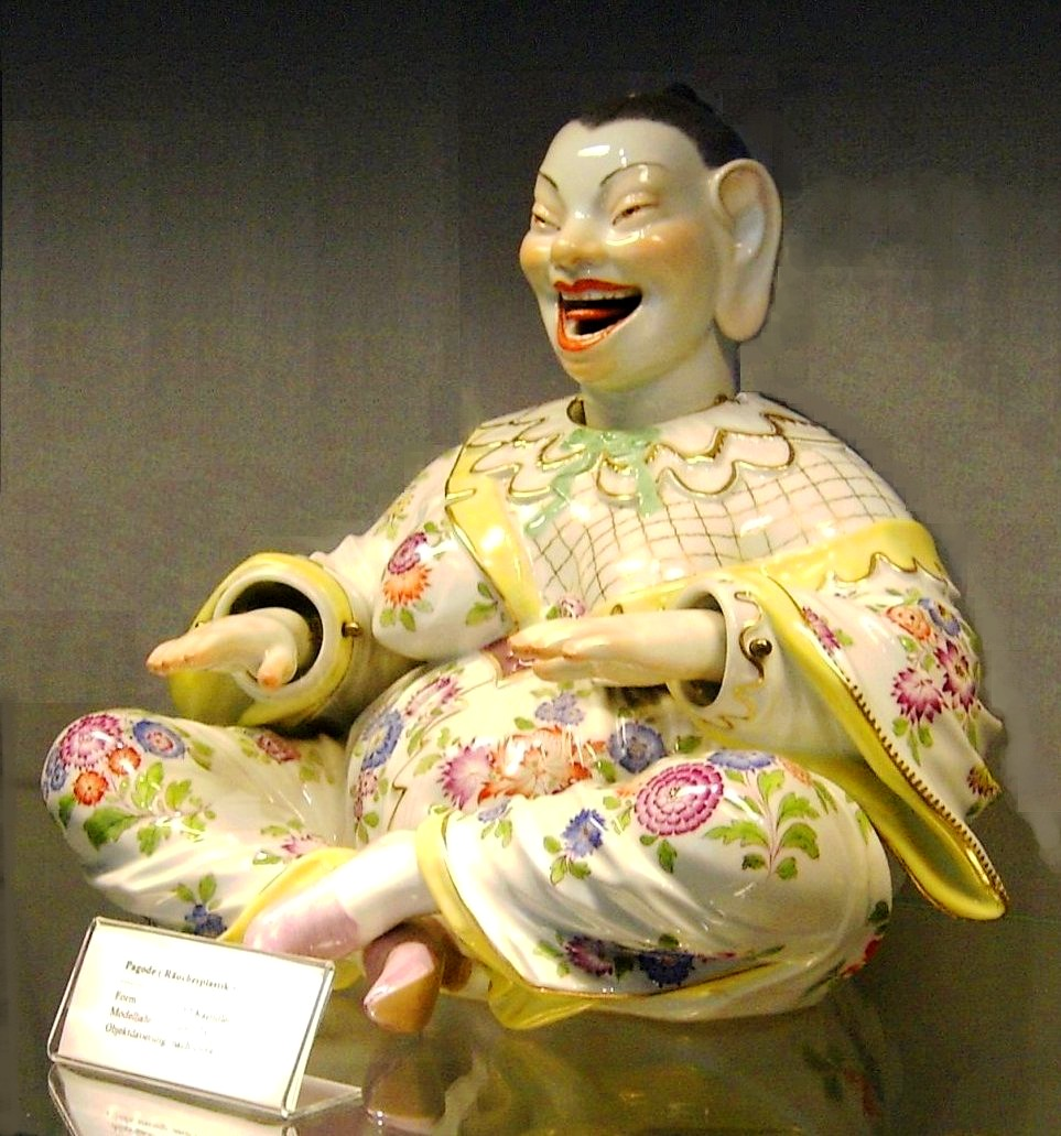 Meissen porcelain museum. Laughing Buddha.